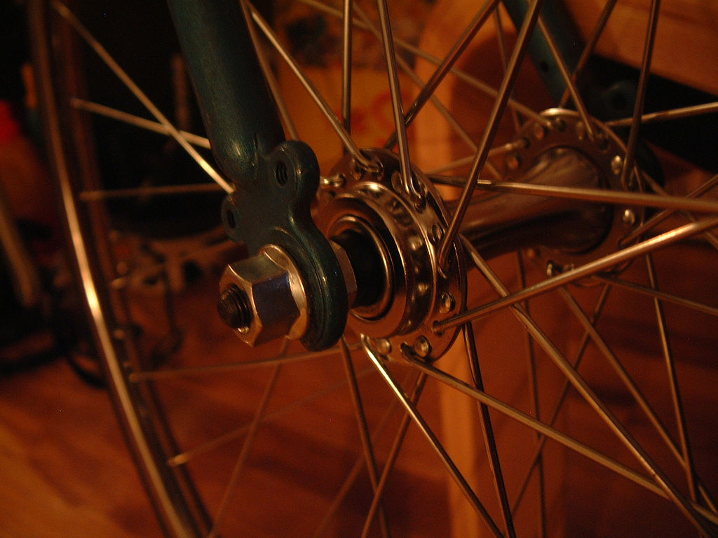 Wire wheels